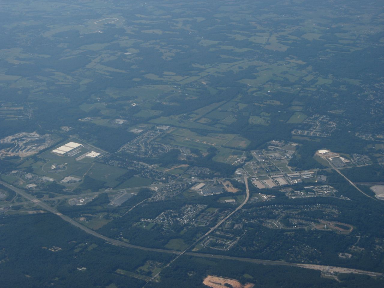 The Wedge (or Delaware Wedge) is a small tract of land along the borders of Delaware, Maryland and Pennsylvania. Ownership of the land was disputed until 1921; it is now recognized as part of Delaware. The tract was created primarily by the shortcomings of contemporary surveying techniques. It is bounded on the north by an eastern extension of the east-west portion of the Mason–Dixon Line, on the west by the north-south portion of the Mason–Dixon line, and on the southeast by the New Castle, Delaware Twelve-Mile Circle. The crossroads community of Mechanicsville, Delaware, lies within the area today.